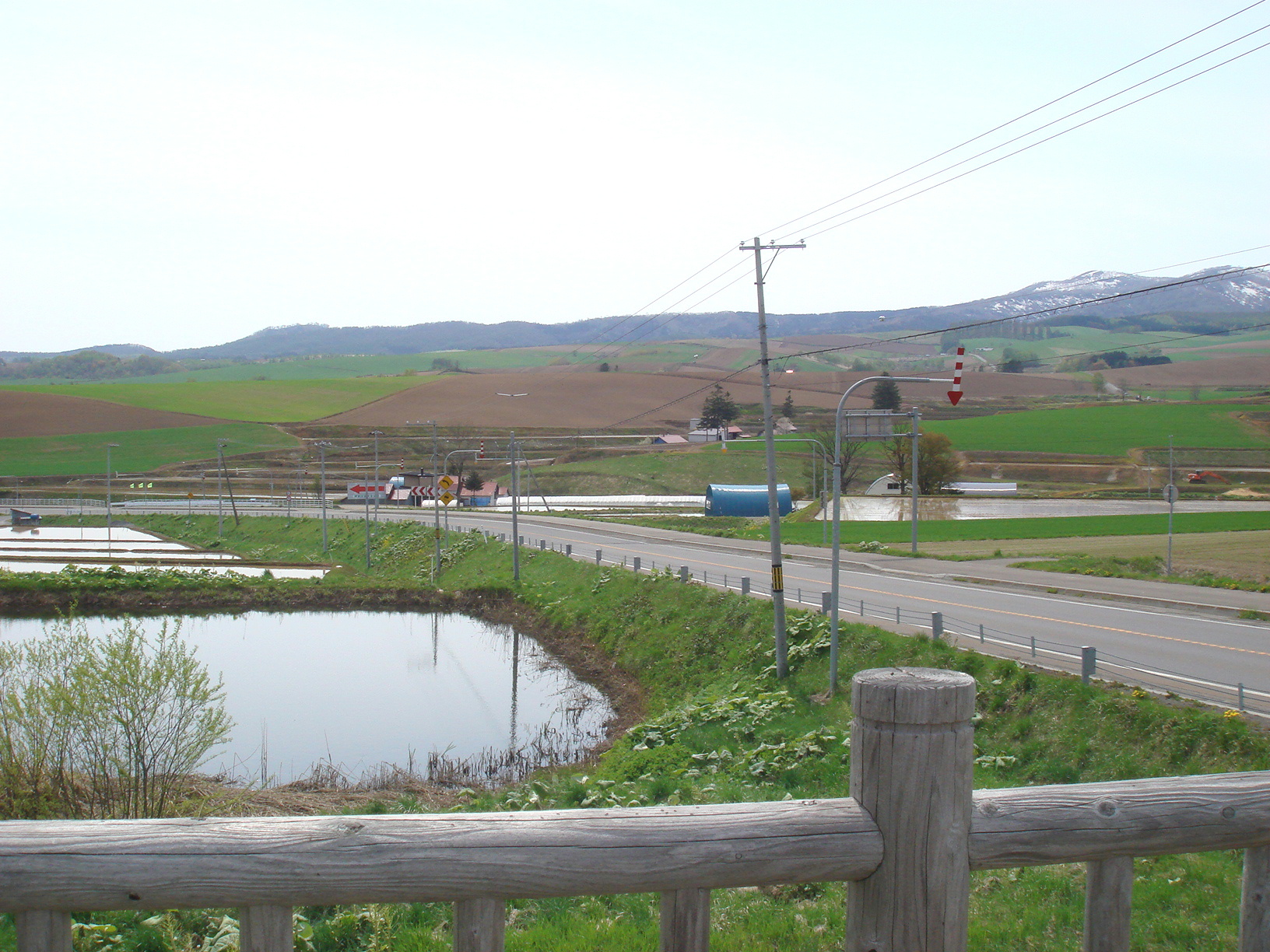 Hokkaido Pref Route 4, Shinjo-toge (Ashibetsu, Hokkaidō)